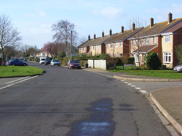 Fane Drive, Berinsfield This is part of the main road that forms a circle through the village. The village is new and was built on the site of RAF Mount Farm in what used to be Dorchester.